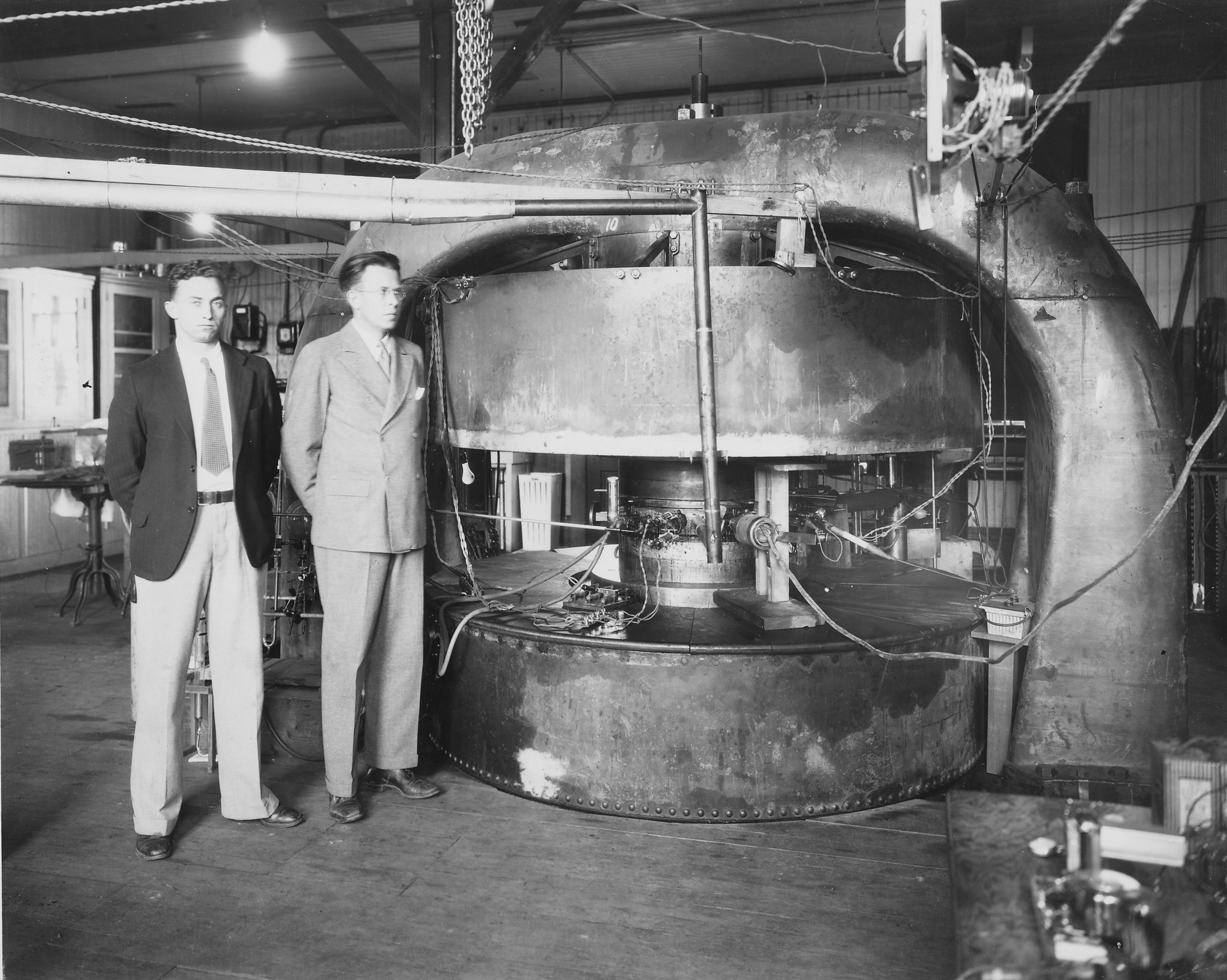 M. Stanley Livingston (L) and Ernest O. Lawrence in front of 27-inch cyclotron at the old Radiation Laboratory at the University of California, Berkeley.